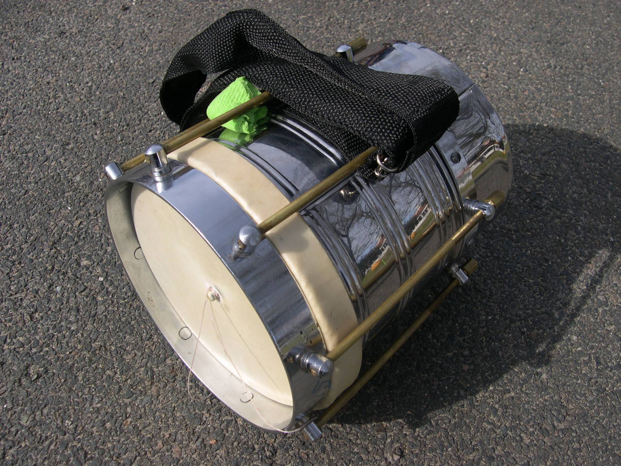 Cuica - Side view.